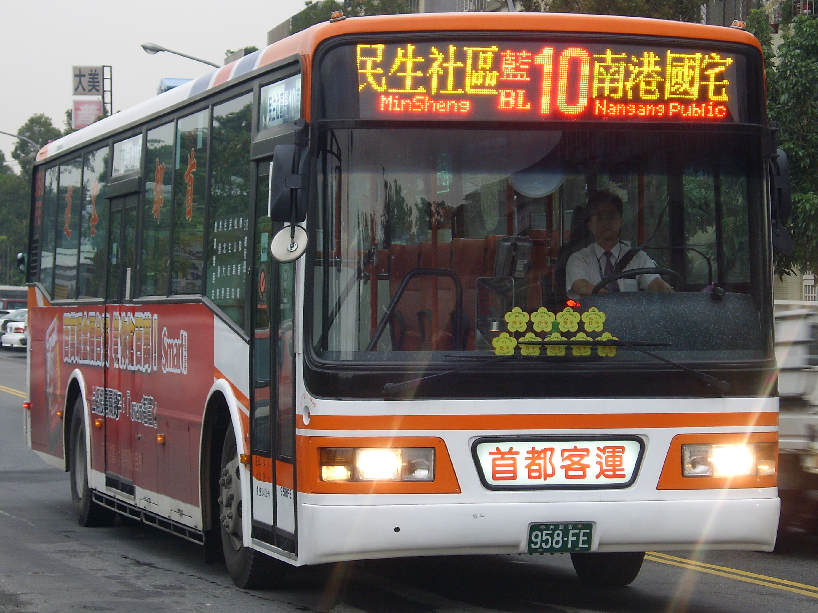 2006 Hino ERK bus 958-FE by Capital Bus Co., Ltd.